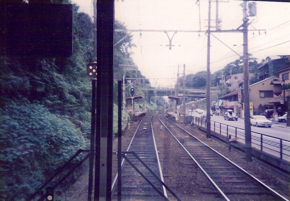 This was Keihan Keishin Line Kujoyama Station. This was taken in 1997/09.